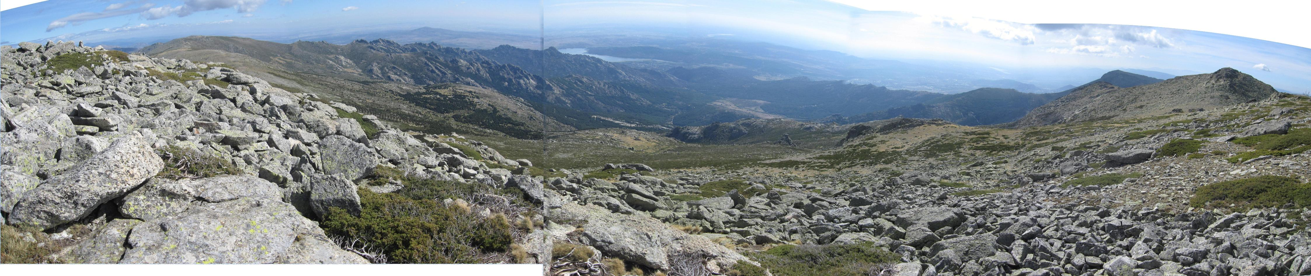 Panoramic view to the South from Caabezas de Hierro's summit (Guadarrama mountain range, central Spain).